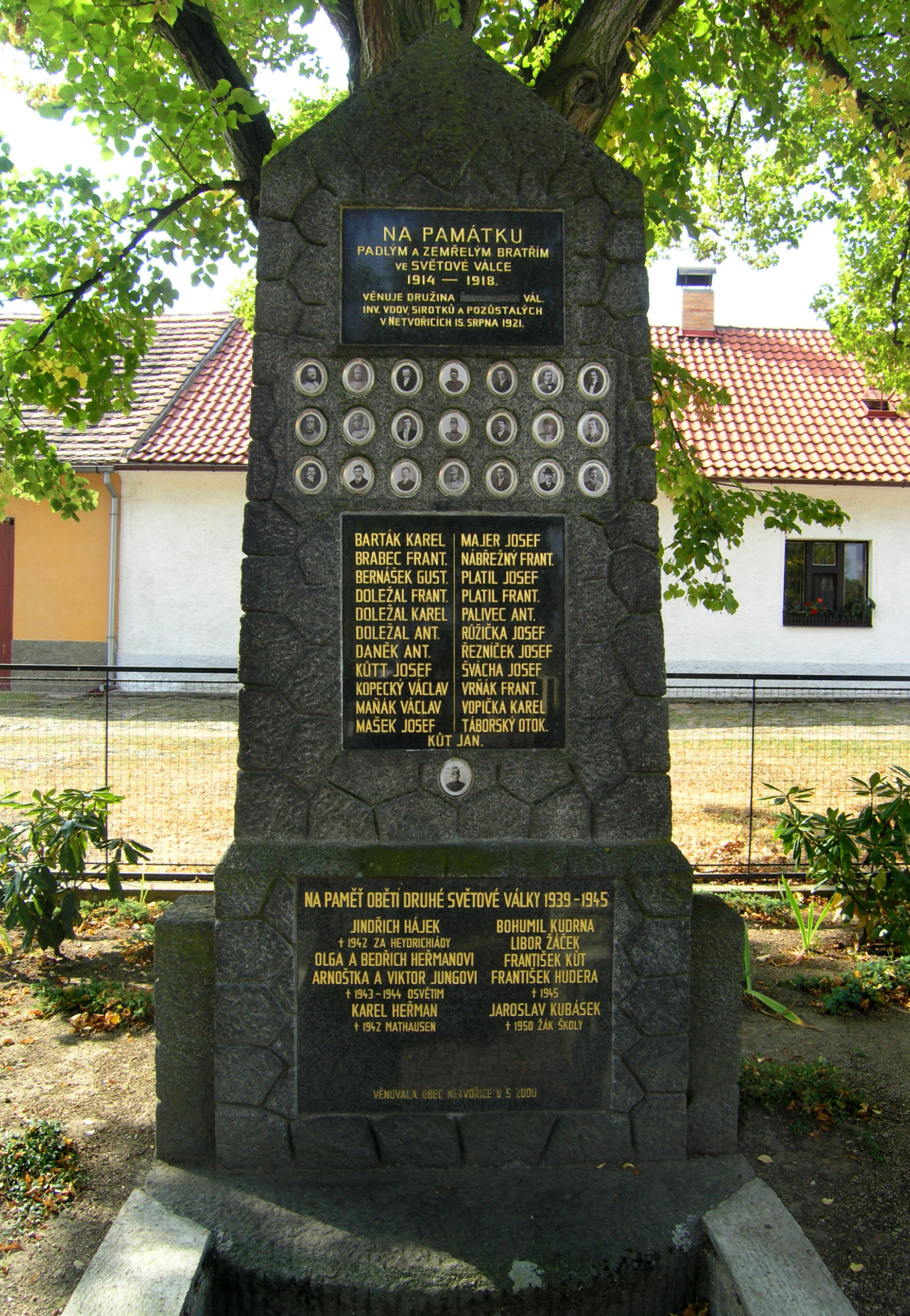 Memorial in Netvořice, Czech Republic